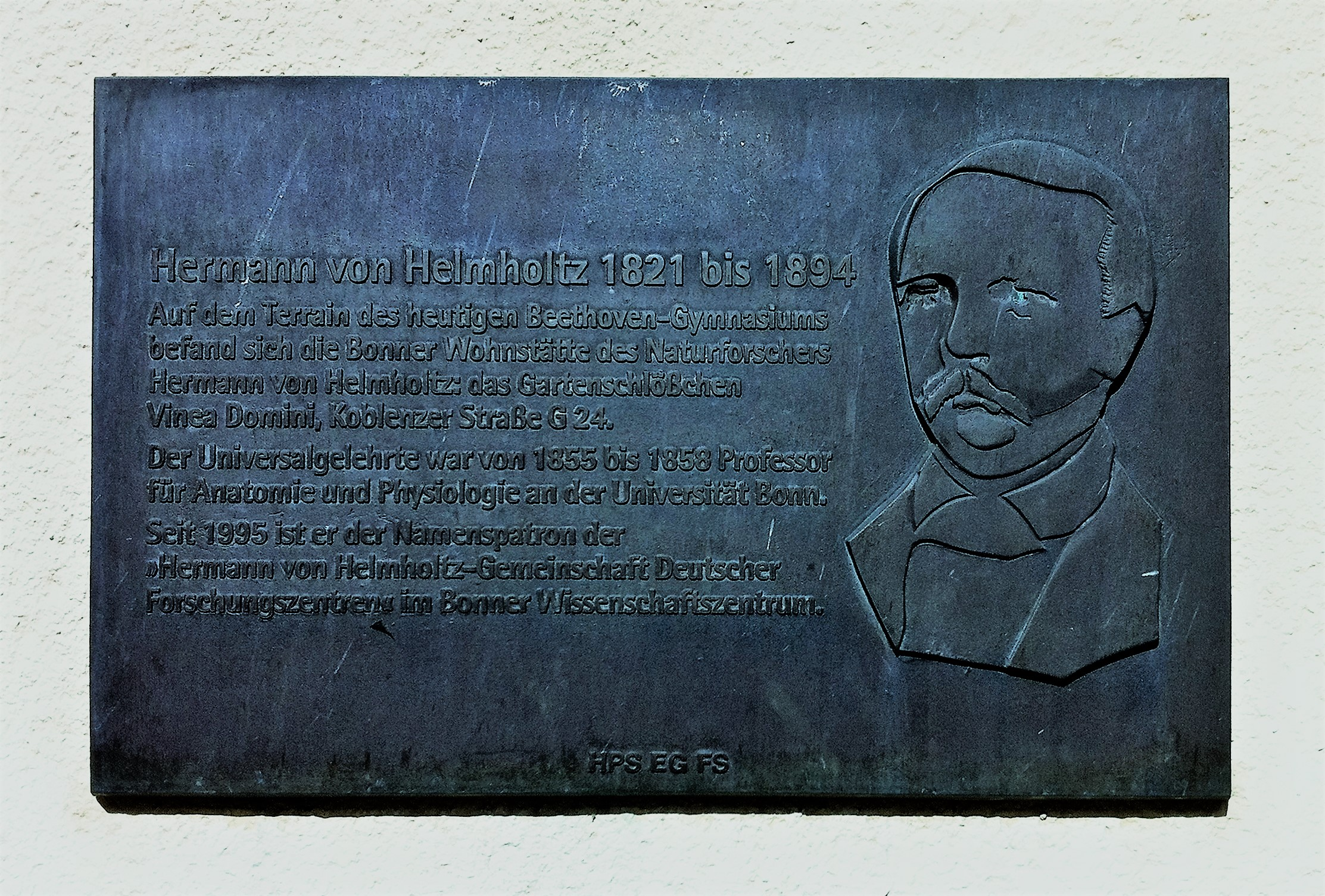 Bonn, Beethoven-Gymnasium school, inscription for Hermann von Helmholtz